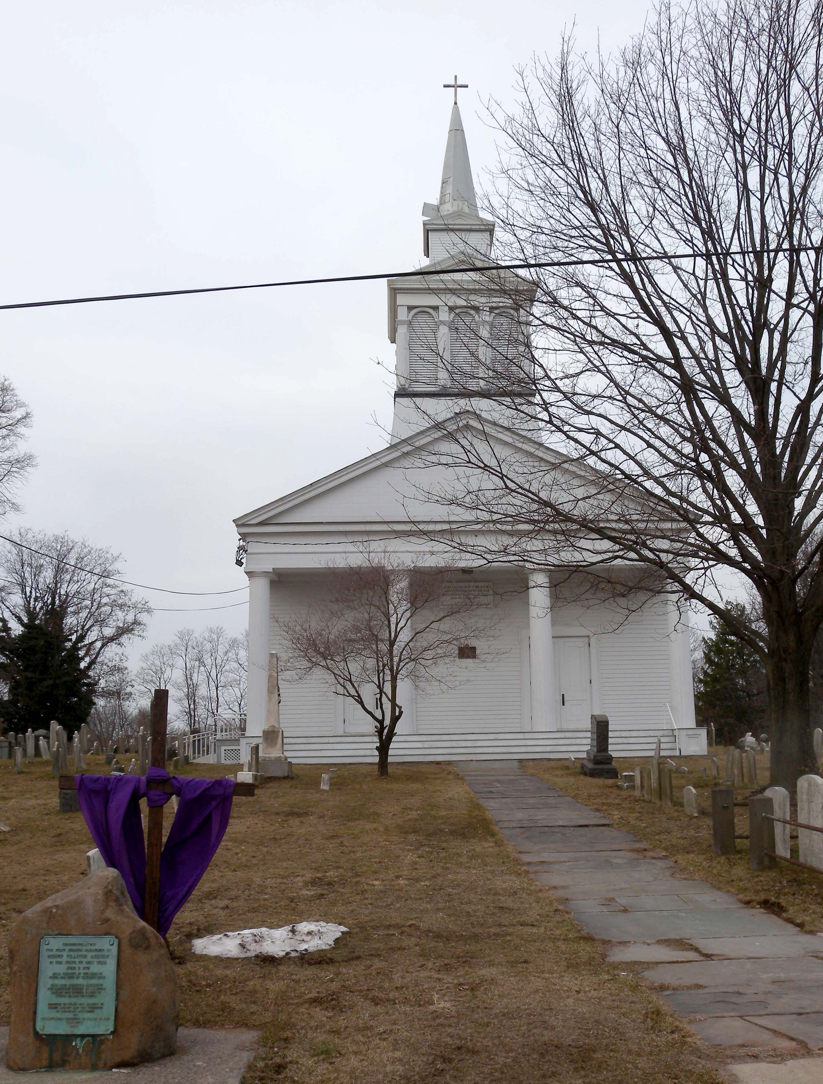 Looking north from Woodrow Road at Woodrow United Methodist Church in Woodrow, Staten Island on a cloudy afternoon.